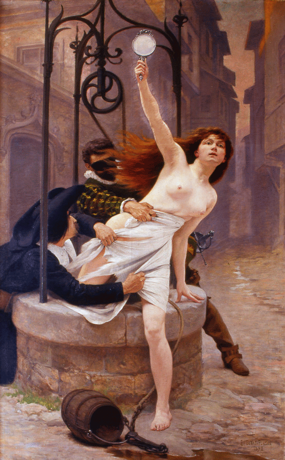 She Is Not Drowning; or, Truth Leaving the Well. Truth emerges from a well escaping the clerical hypocrisy and military force of the Dreyfus affair.